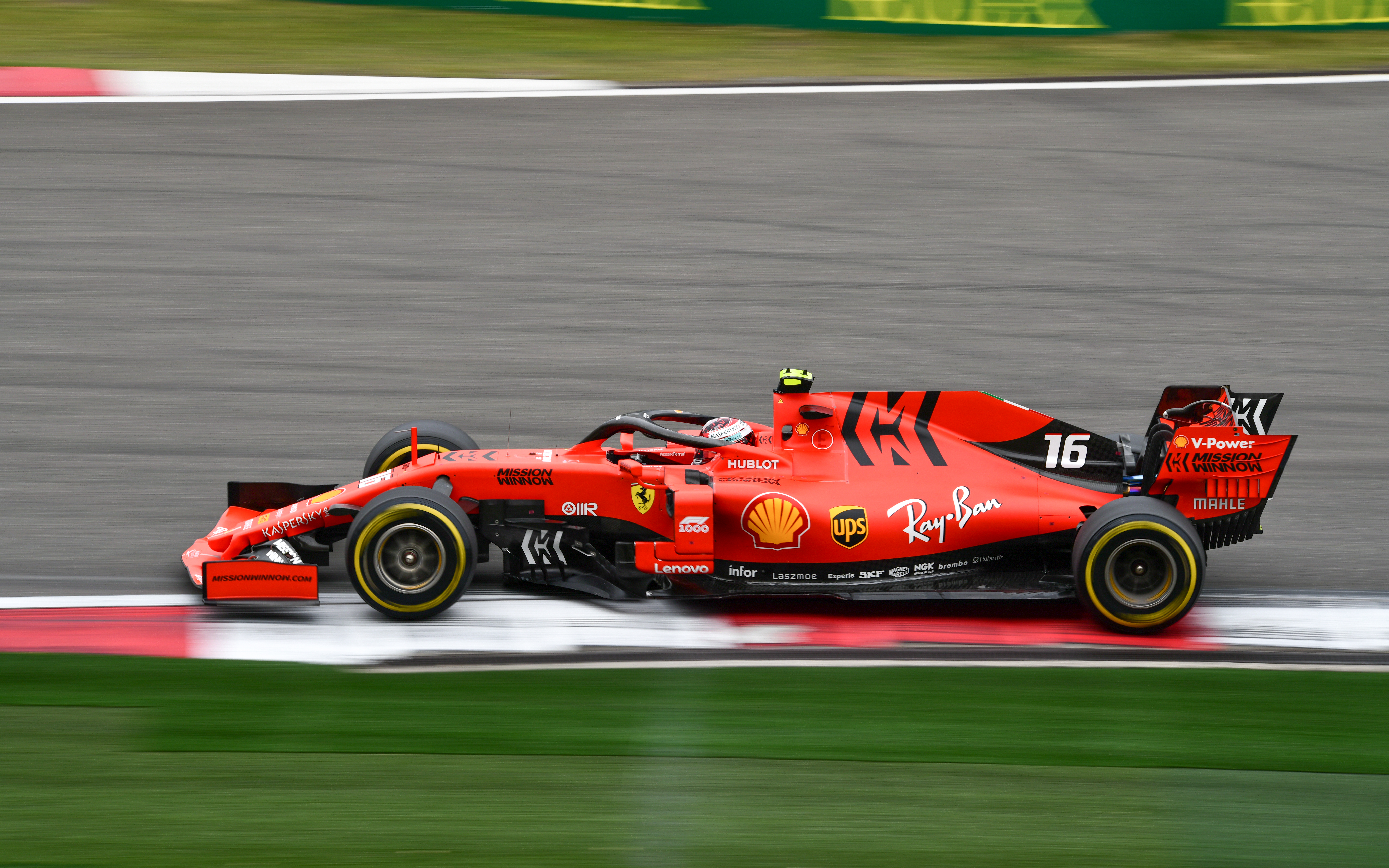 2019 Chinese Grand Prix Leclerc.